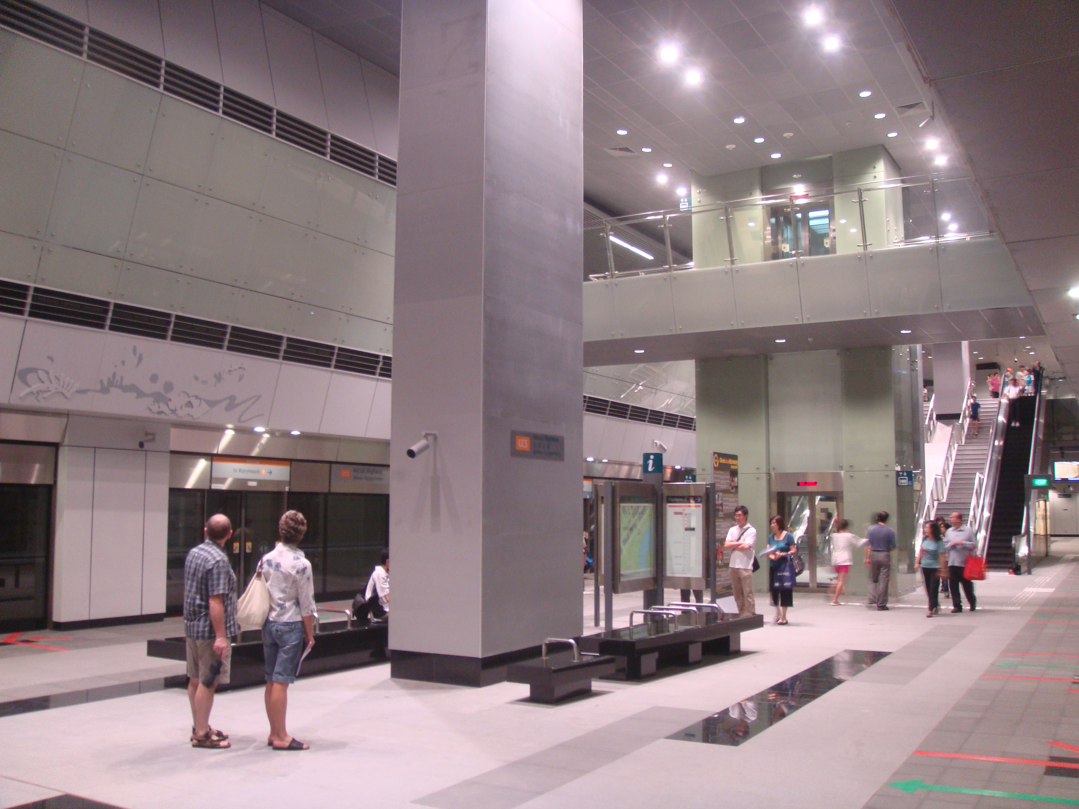 Circle Line platform of Nicoll Highway MRT Station, taken on the LTA Circle Line Discovery II Open House.